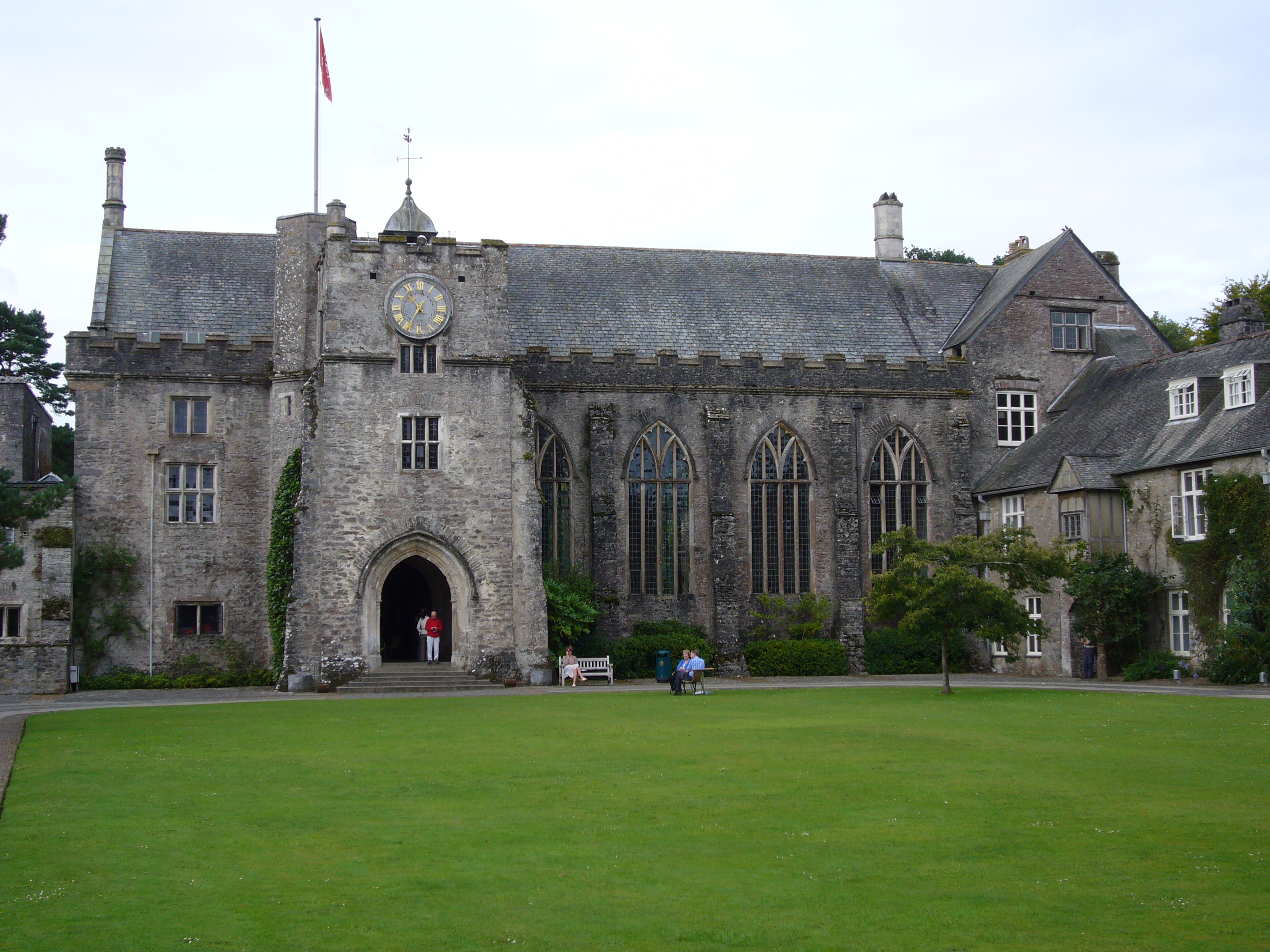 Entrance to the Great Hall at Dartington Hall (Devon)